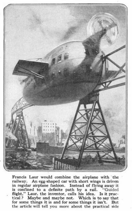 Illustration of the never-realized Francis Laur's "guided flying" monorail, 1915 - From Popular Science vol 95 n°5, dec 1919